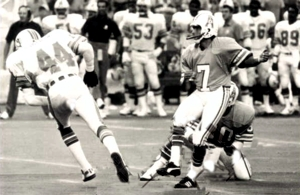 Houston Oilers kicker Tony Zendejas attempting a field goal during a 1985 home game against the Miami Dolphins.